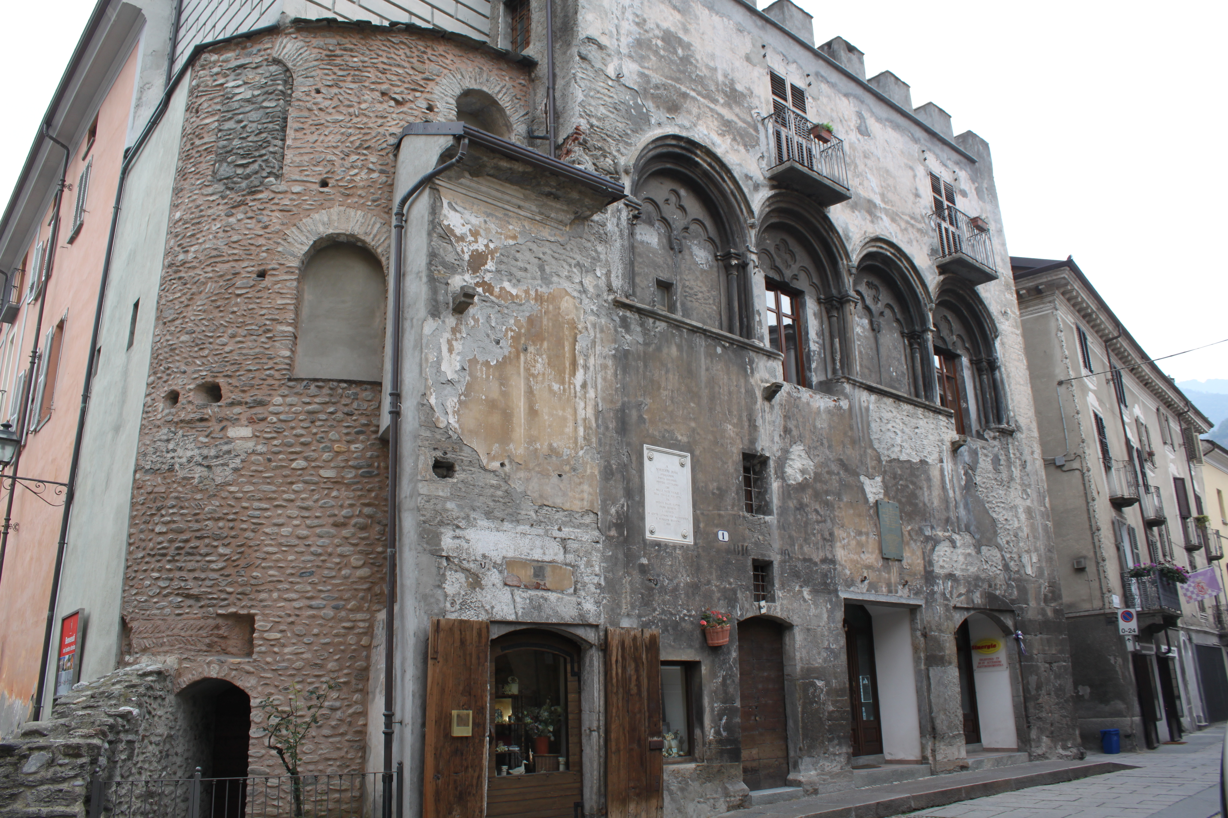 Ancient house at Susa, in Piedmont (Italy). Here was born Arrigo de Bartolomei, outstanding Medieval jurisconsult, who is mentioned by Dante in the xii Canto of Paradiso, Divine Comedy.